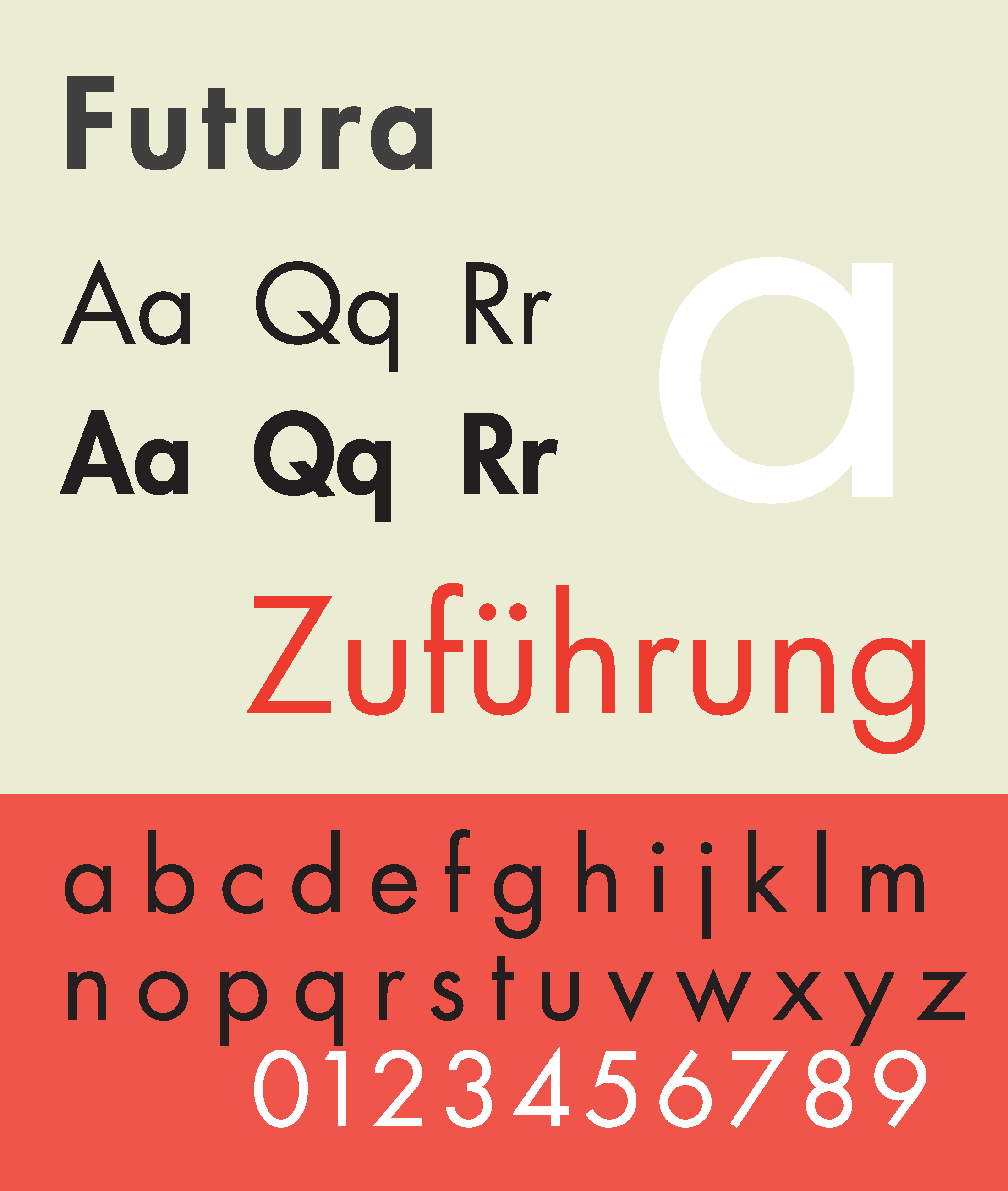 Specimen of the typeface Futura, Jim Hood